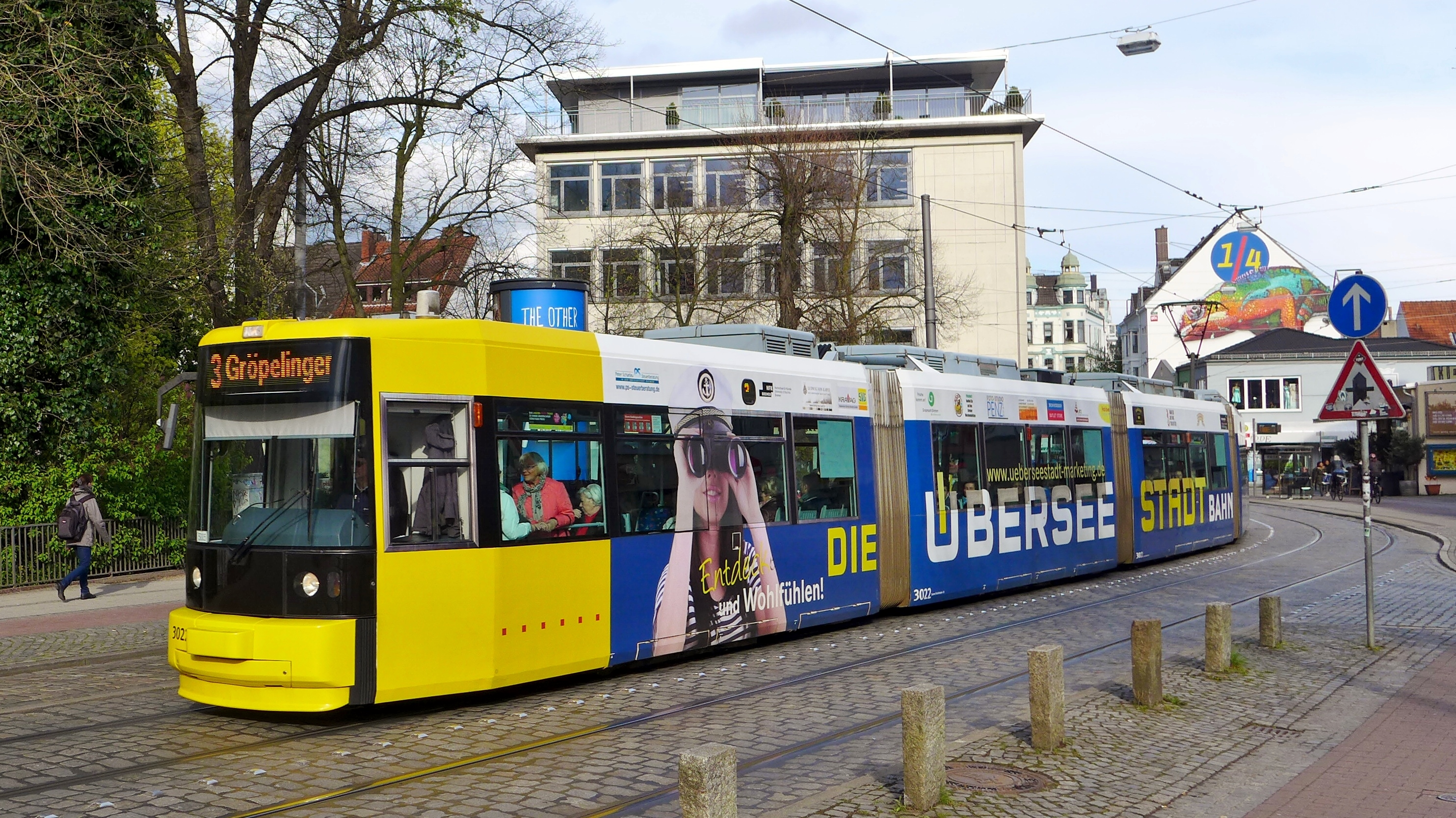 Bremer Straßenbahn AG (BSAG) tram no. 3022 operating a Gröpelingen-bound line 2 service in Ostertorsteinweg, Bremen, Germany.